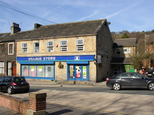 The Library and Wooldale Co-operative Society Village Store, Holmfirth Road, New Mill, Fulstone township, near Holmfirth